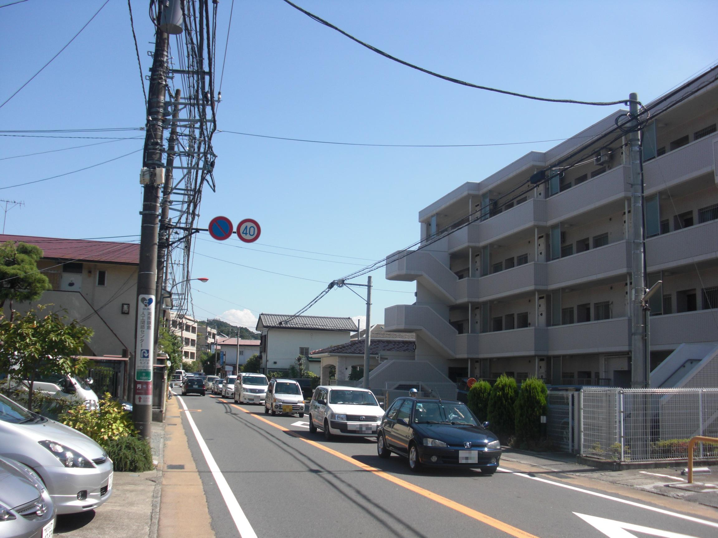 This is a landscape of Dai, Kamakura, Kanagawa, Japan.